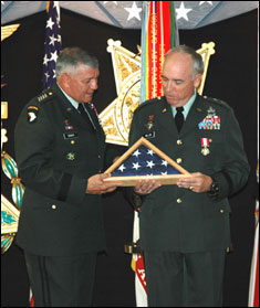 Miller's retirement ceremony.